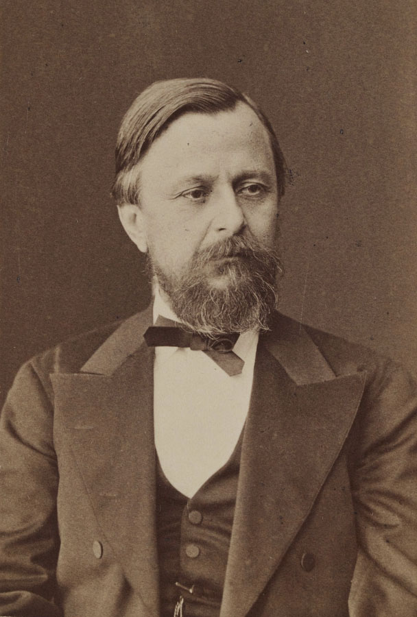 Architect Alexander Geschwendt, photograph by S. Ptaszynski, Saint-Petersburg 1877.